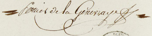 Signature of Achille Perrier de La Genevraye (1787-1853)